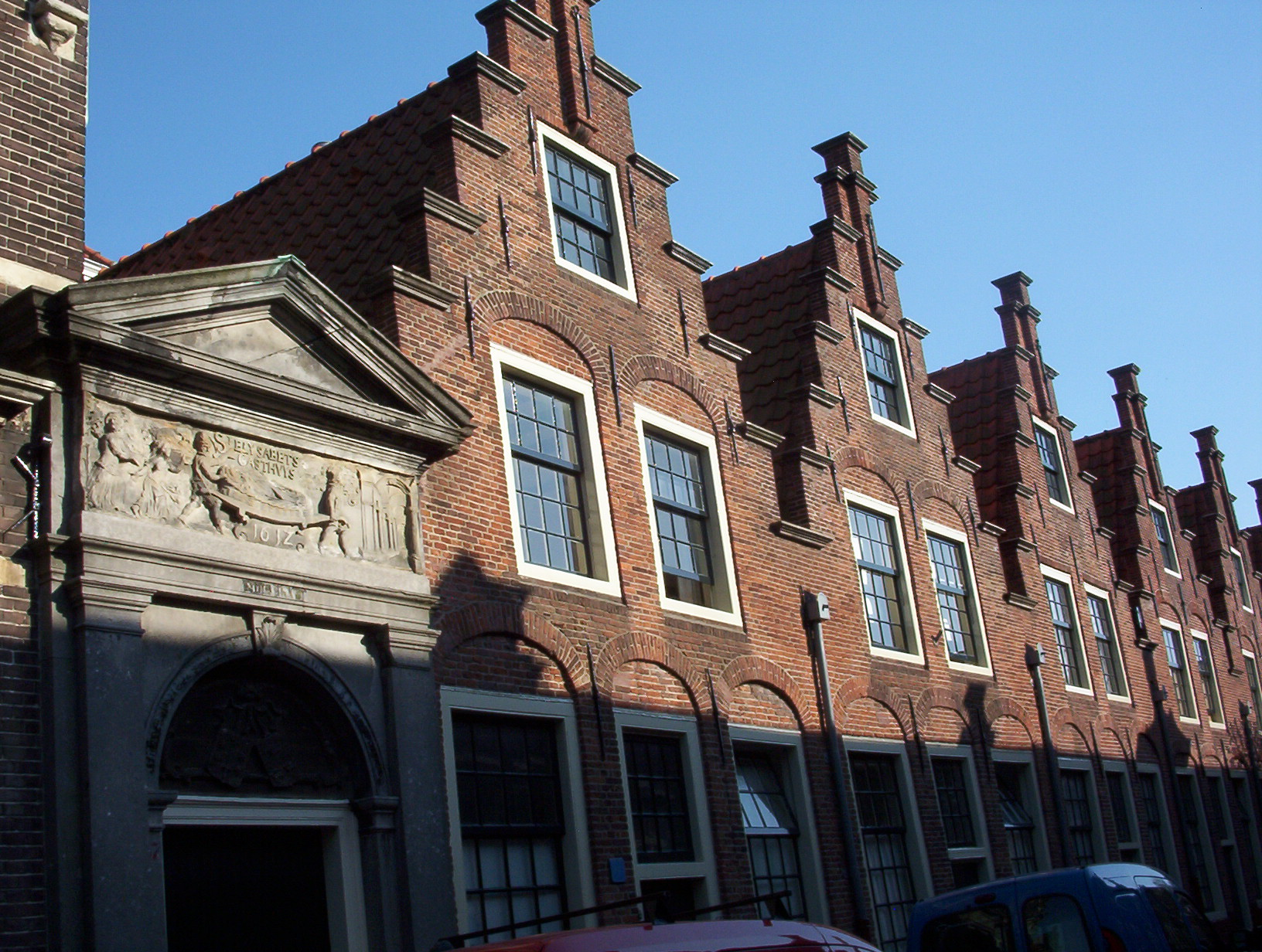 Foto of St, Elisabeth Gasthuys gate and houses. The keystone is dated 1612, but the doorway was the main entrance from 1581 up to the 20th century.